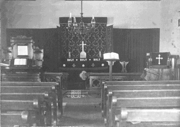 Bung Bong, Victoria - Church interior